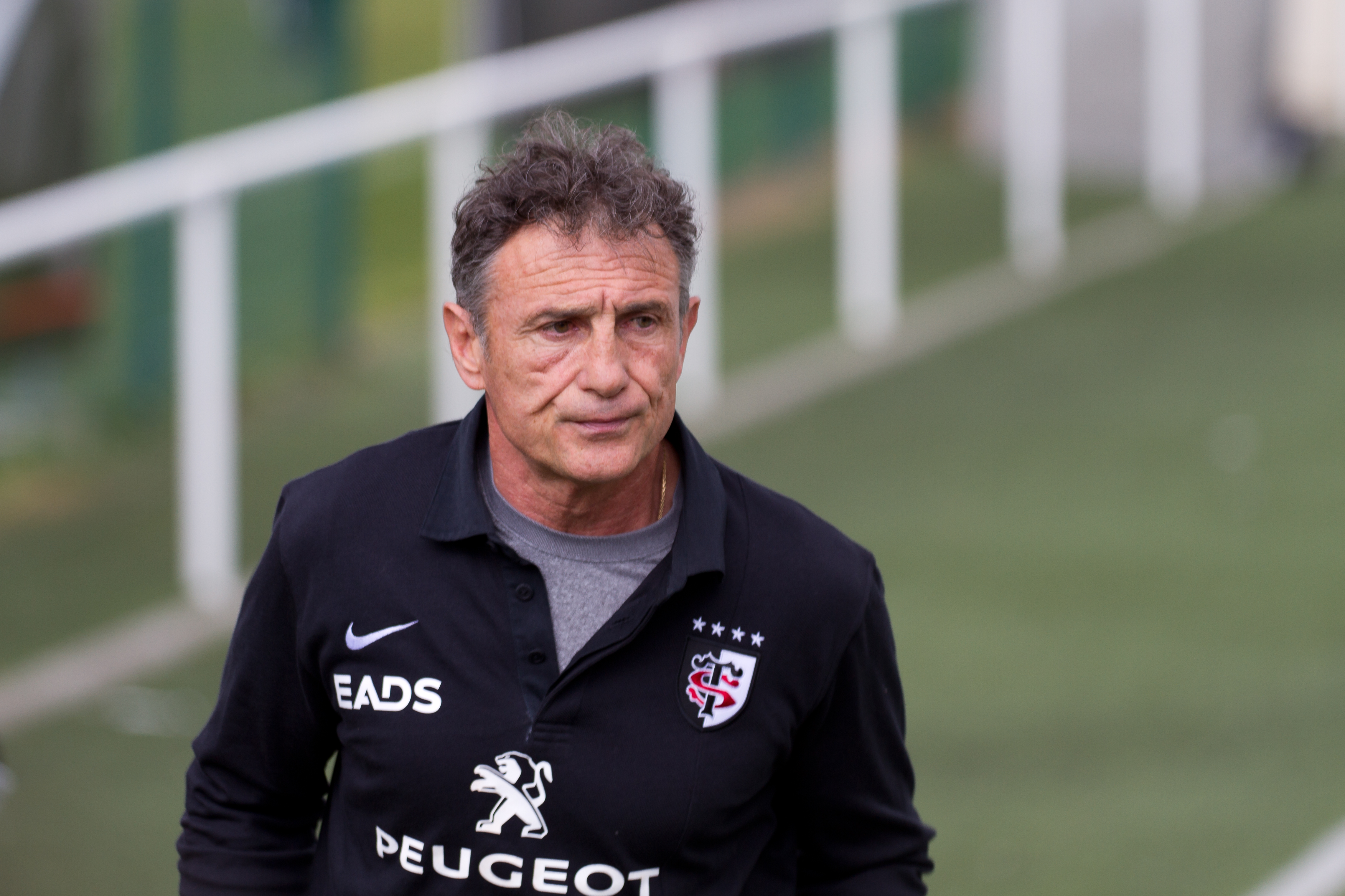 Top 14 — 21 April 2012, Stade Ernest-Wallon. Match between: Stade toulousain — CA Brive Guy Novès